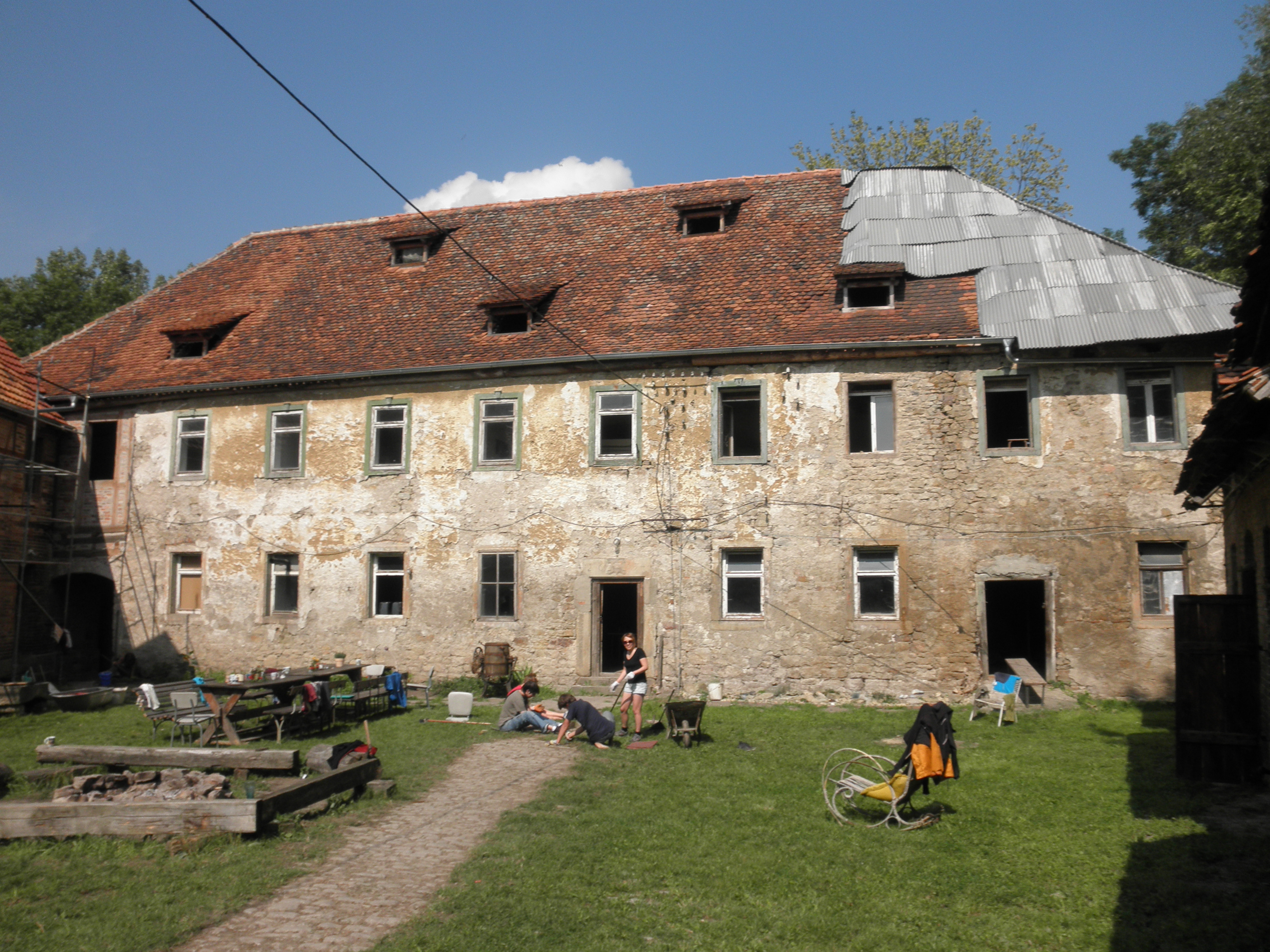 Manor House in Ollendorf in Thuringia